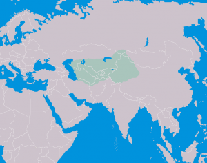 dsfsdgjhafdjbgkj